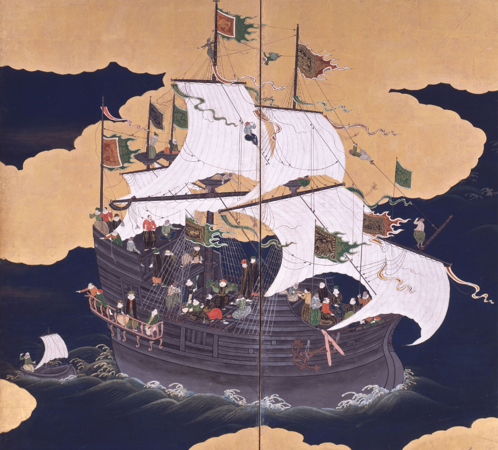 Namban ship on Namban Screen